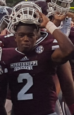 Will Redmond in 2015